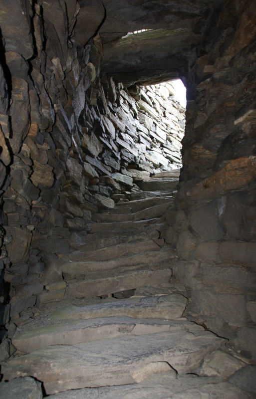 Dun Carloway, Lewis, Scotland, intramural stairs